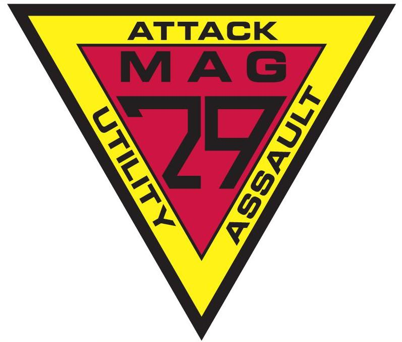 The patch for Marine Aircraft Group 29